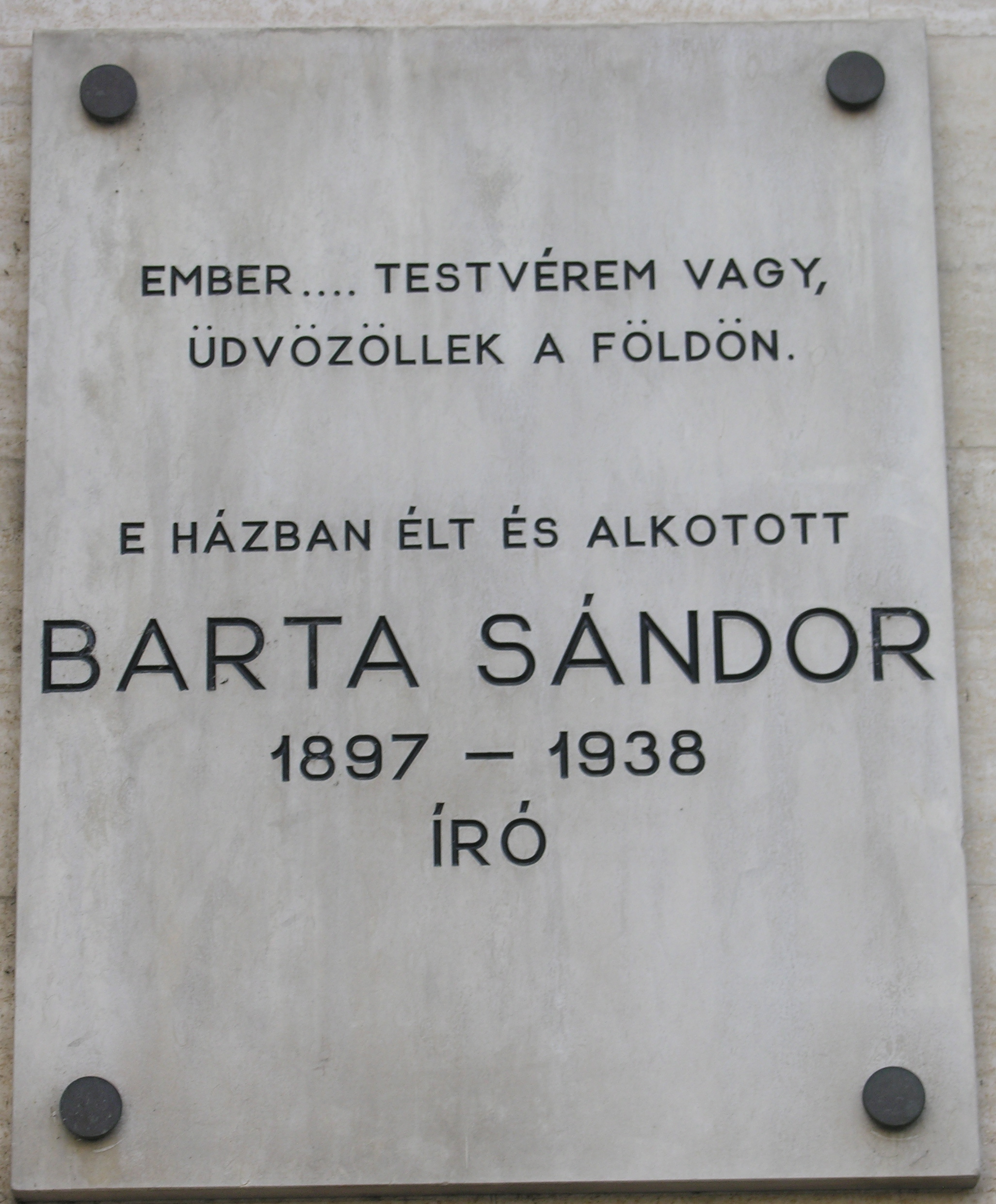 Commemorative plaque of Sándor Barta in Budapest District V, Károly Boulevard No 22